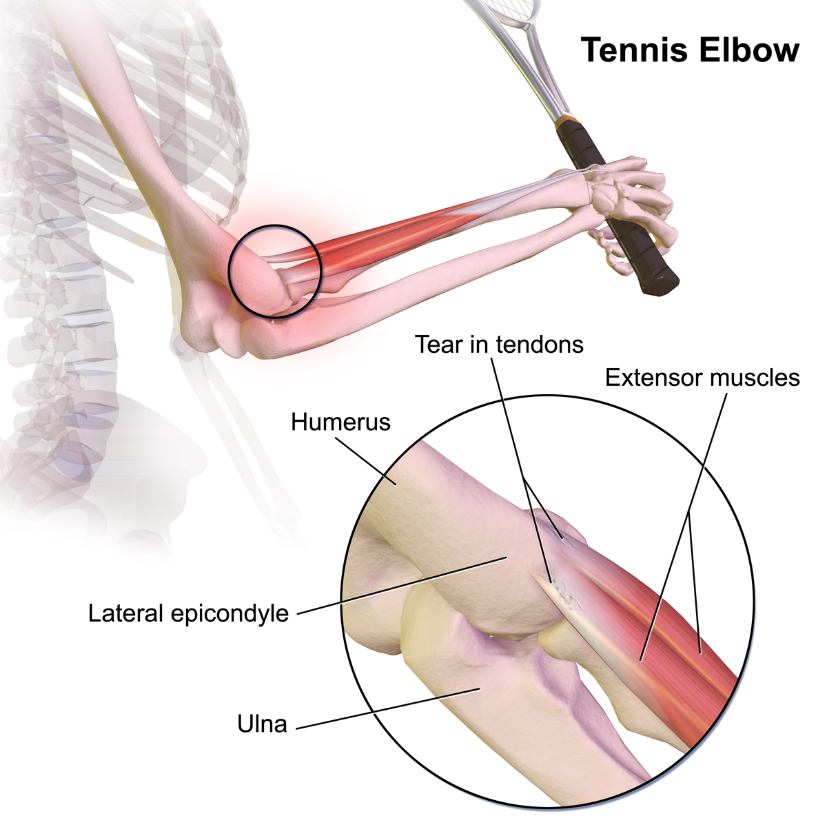 Tennis Elbow. See a full animation of this medical topic.